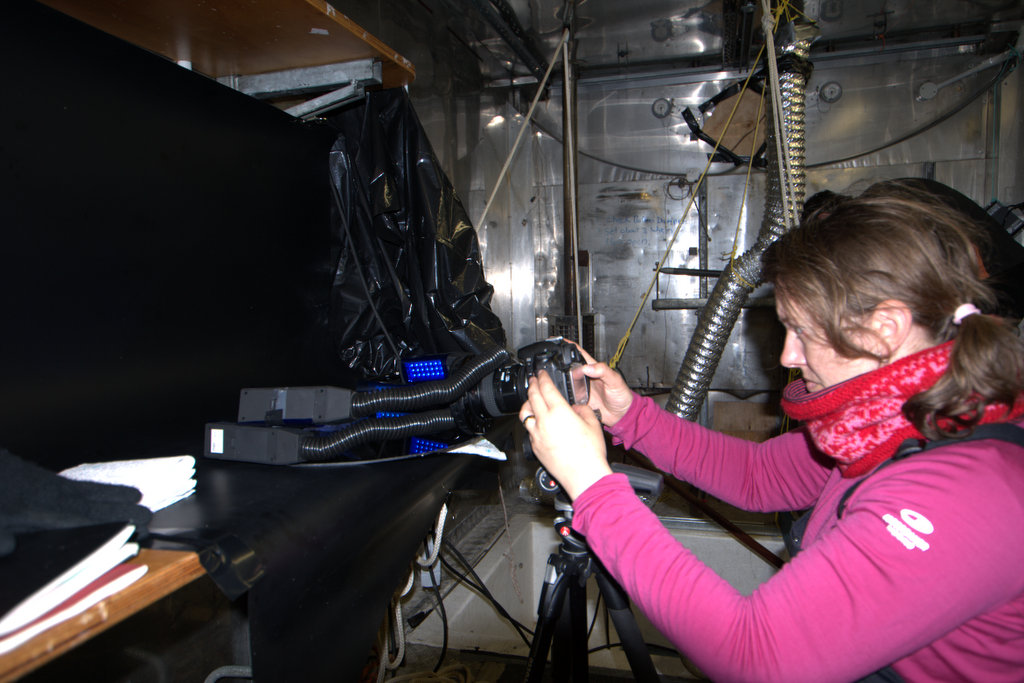 The artist Gabby O'Connor working in a field container on the sea ice of Antarctica. This was during science event K131 in 2015 onthe McMurdo Sound sea ice.